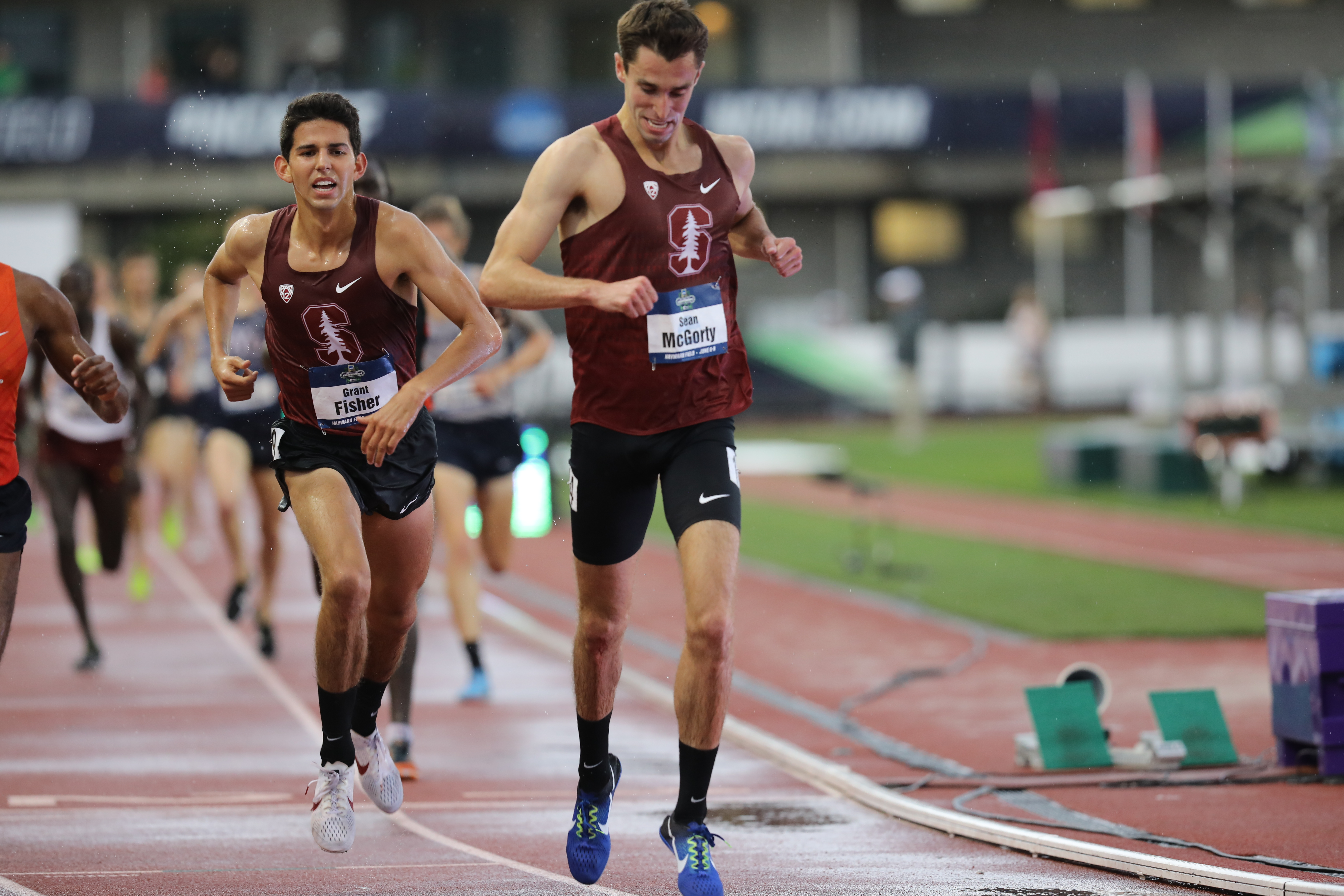 2018 NCAA Division I Outdoor Track and Field Championships